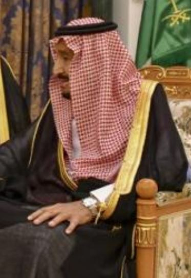 cropped view from a photo of meeting between U.S. Secretary of State Michael R. Pompeo and Saudi King Salman bin Abdul-Aziz at the Royal Court in Riyadh, Saudi Arabia on October 16, 2018.